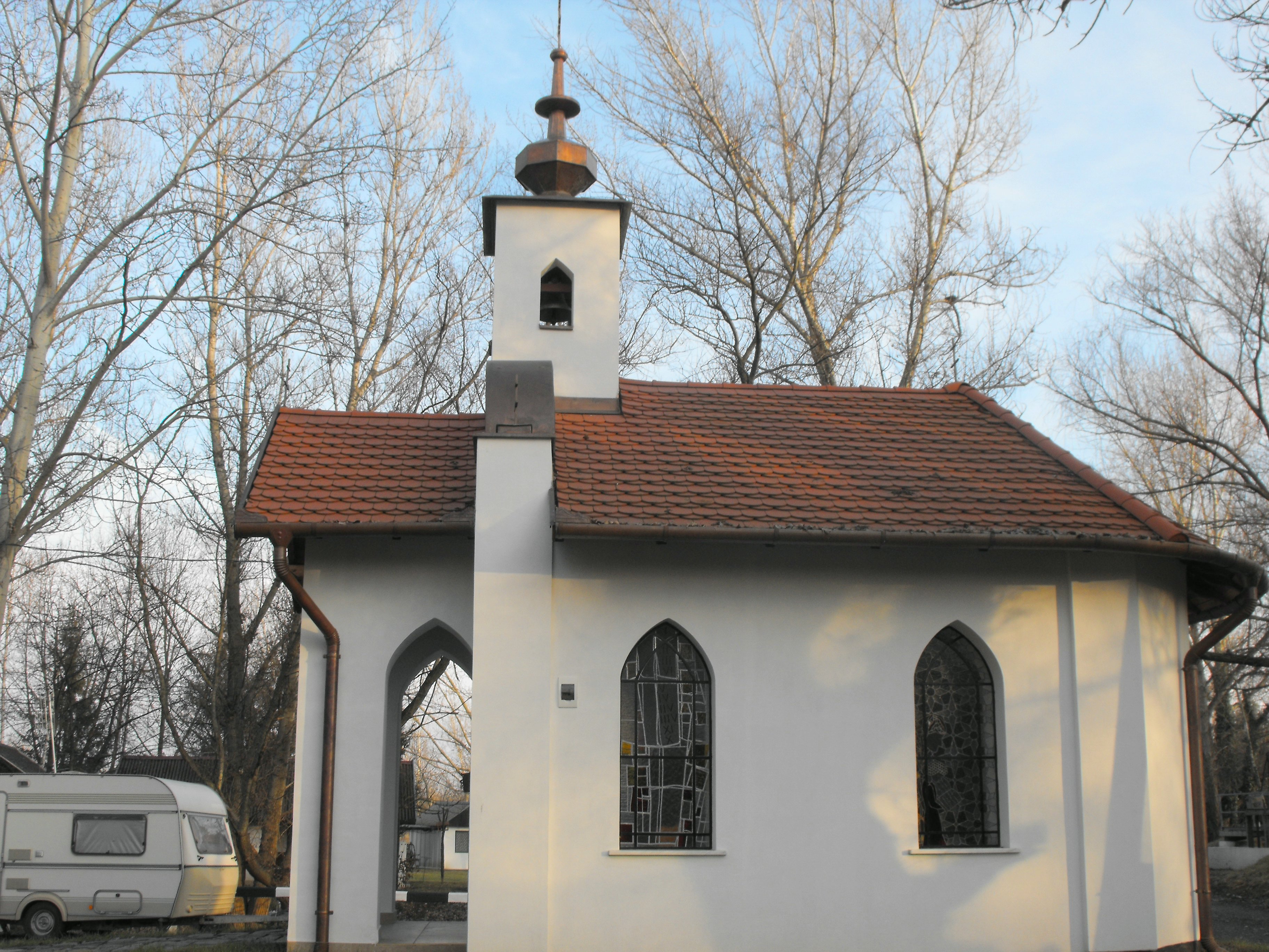 The Saint Stephen Chapel in Makó, Hungary.